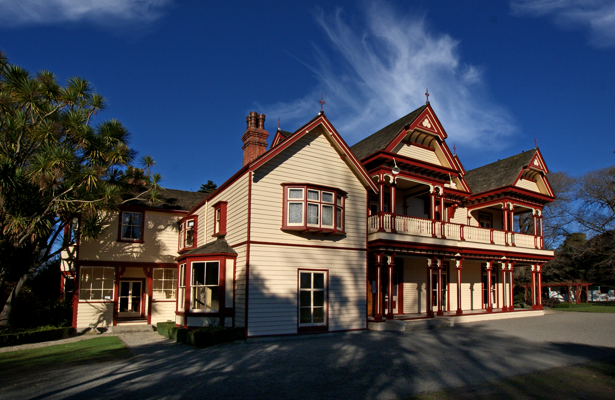 Riccarton House was the homestead commissioned by Jane Deans in 1855. The Deans brothers, who along with the Gebbies and the Mansons, were the second group of Europeans to settle in Christchurch in 1843 on the same site as the first group. Their original 1843 cottage is nearby. Riccarton House is now a function centre and restaurant. The Deans brothers, John and William, named the suburb after the parish in Ayrshire, Scotland, in which they were born. They were also responsible for naming the River Avon after the river of the same name in Lanarkshire, Scotland.